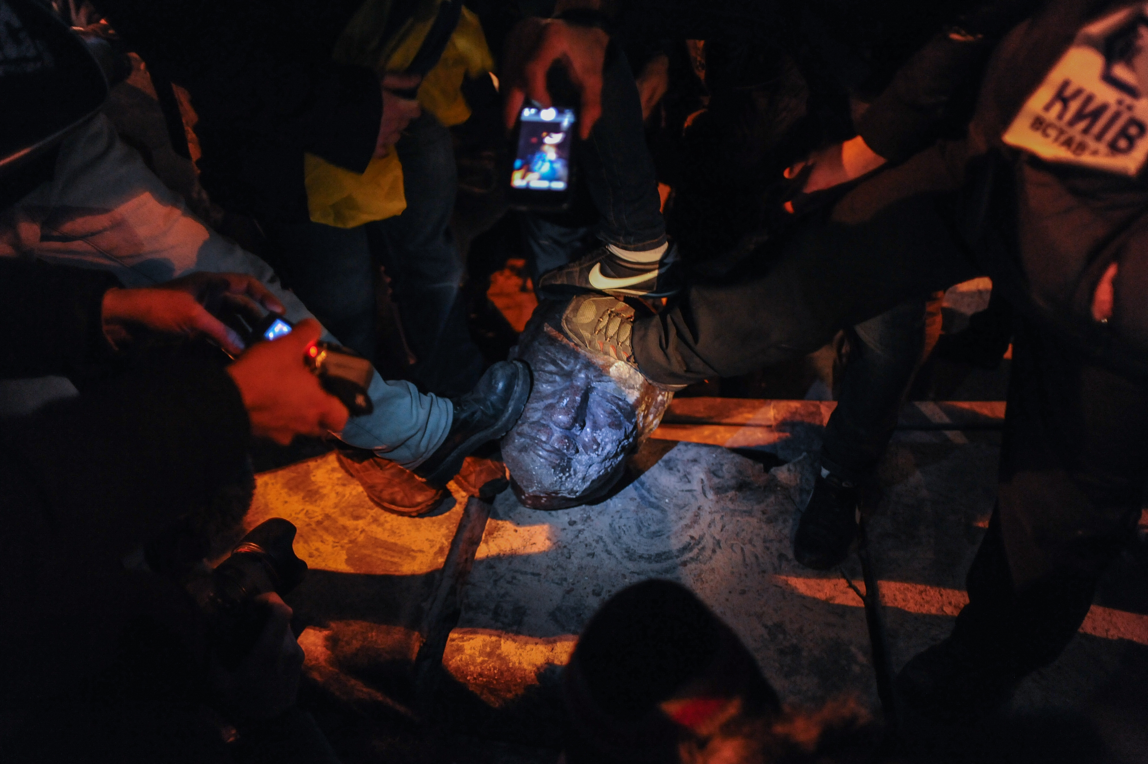 Feet of the protesters placed on the head of the overthrown V.I. Lenin monument. December 8, 2013.